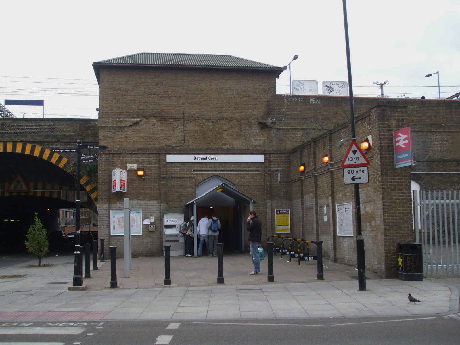 Bethnal Green railway station entrance, some distance away from its namesake Central line tube station